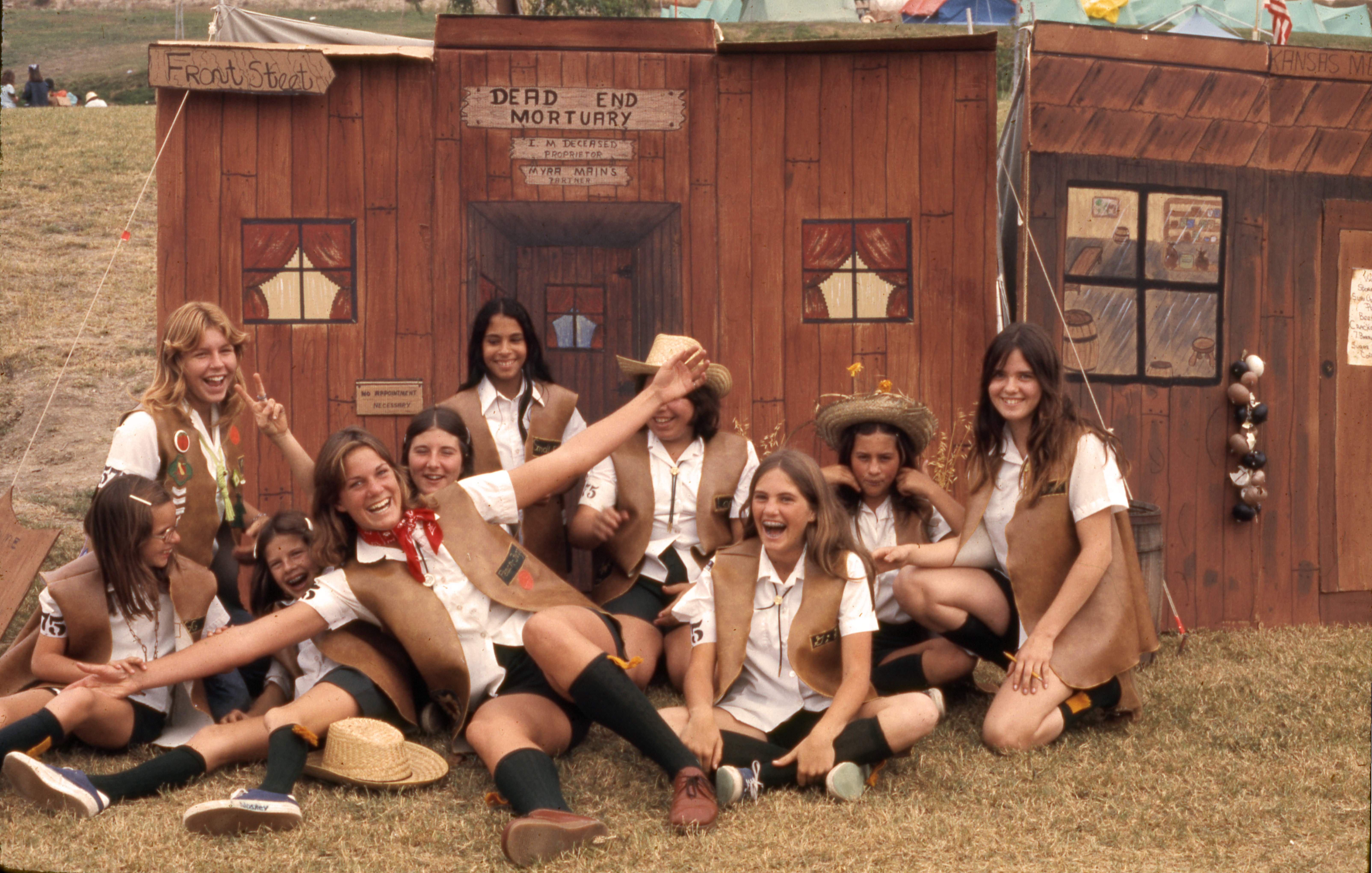 There are no known copyright restrictions on this image. All future uses of this photo should include the courtesy line, "Photo courtesy Orange County Archives." Comments are welcome after reading our Comment Policy. Acc2013.15.5444